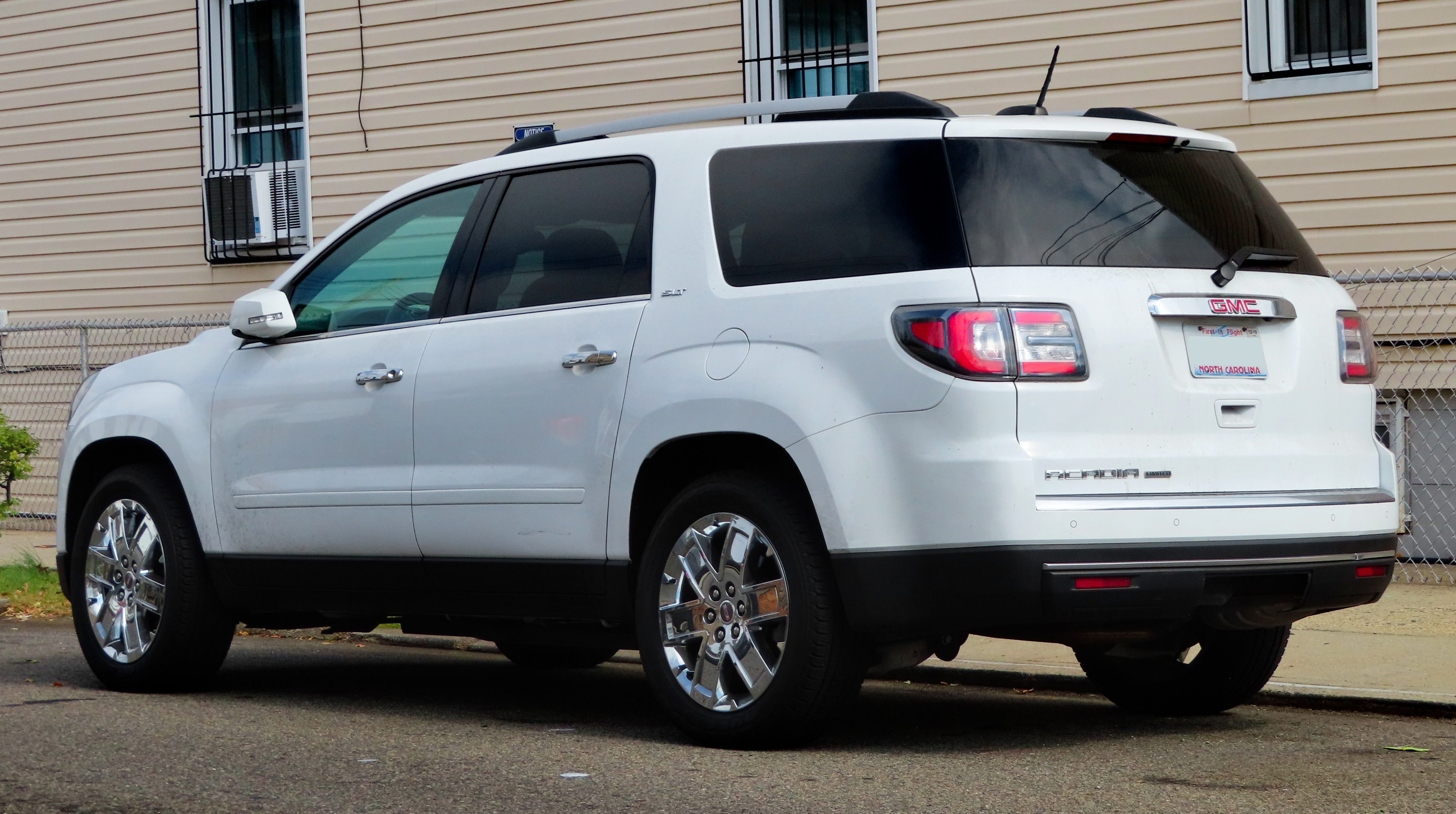 A 2017 GMC Acadia Limited photographed in Jamaica, Queens, New York, USA